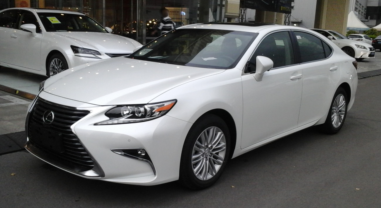 Lexus ES XV60 facelift photographed in Shanghai, China.